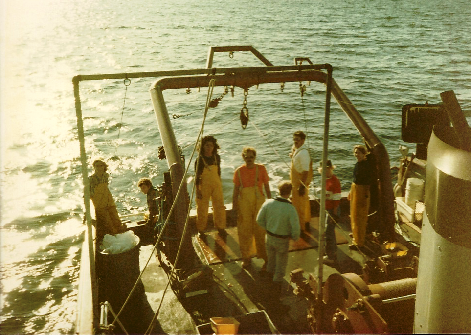 Preparing to retrieve a trawl with benthic fish and invertebrates to be measured, sexed, and counted.